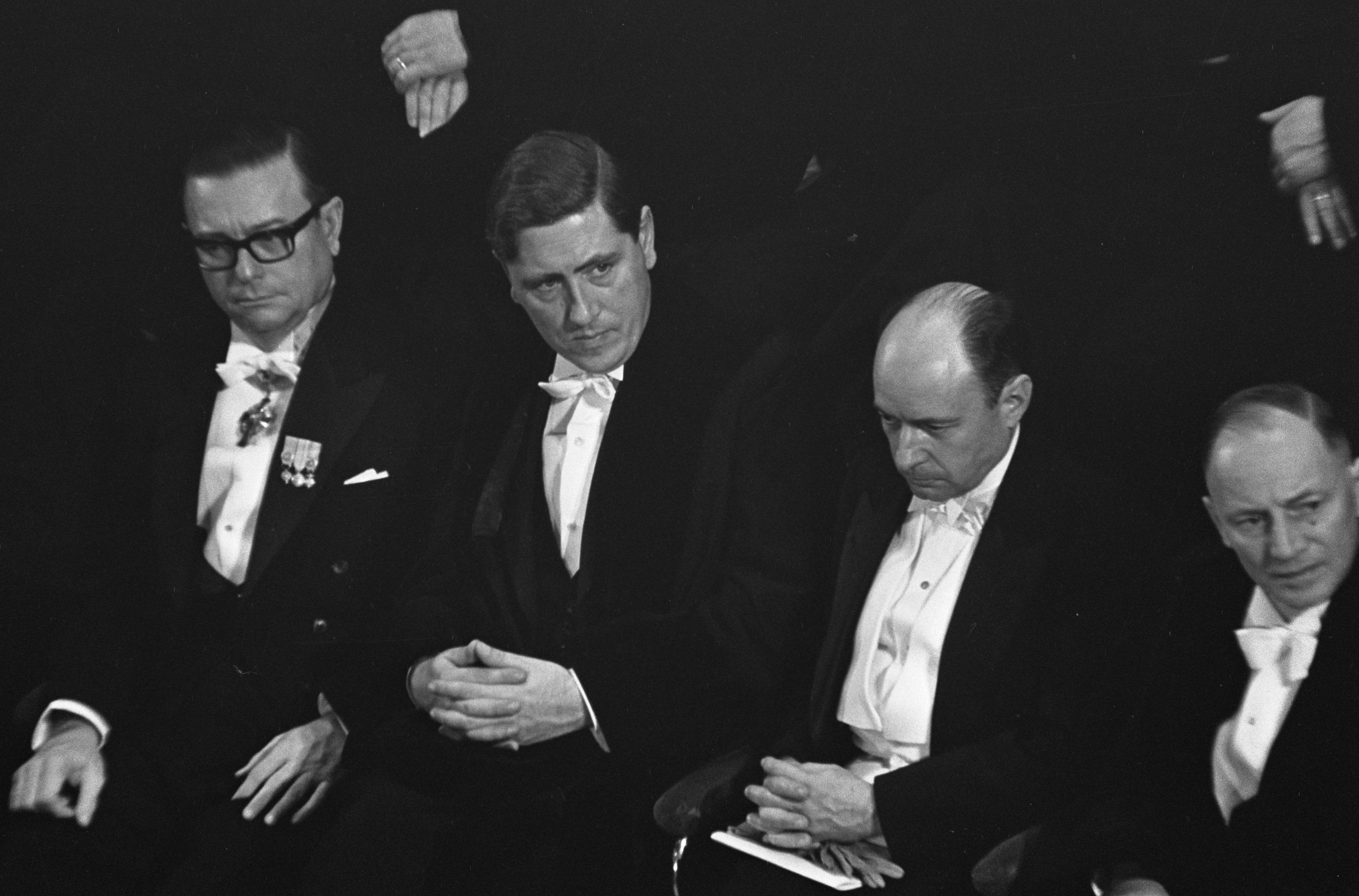 Honorary doctorates at Vrije Universiteit Amsterdam, 20 October 1965. Left to right: Efrain Jonckheer, W. Gibson Parker (?) (in replacement of laureate Paul Hoffmann), Jacques Ellul, mr. XXX.